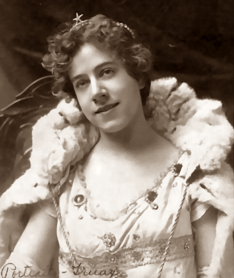 Sarah Truax as Portia in The Merchant of Venice, c.1895